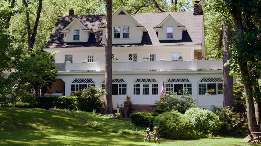 Example of a Hapgood home located on Boulevard